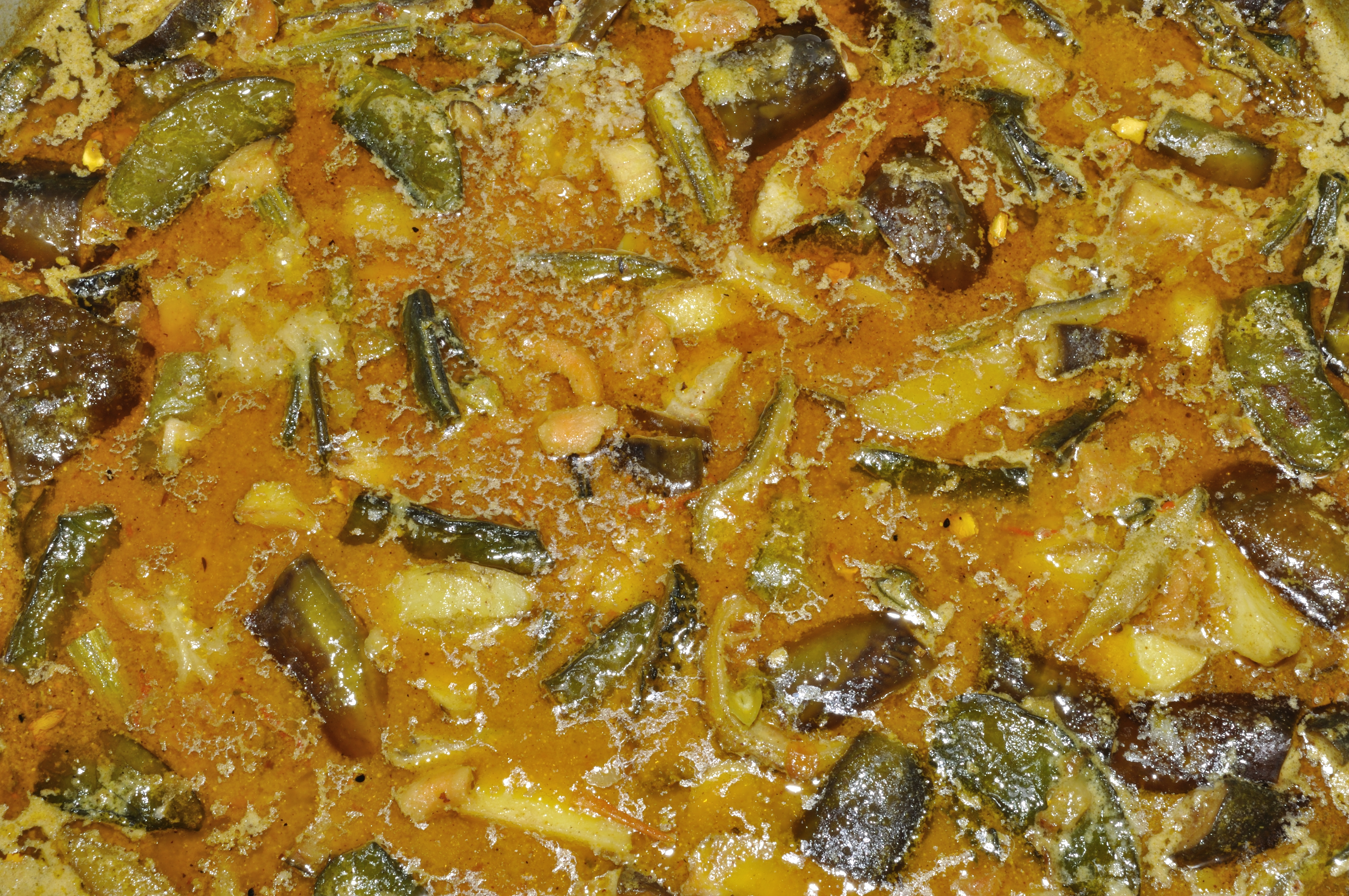 Mixed vegetable curry or bn: Sukto or Shukto.